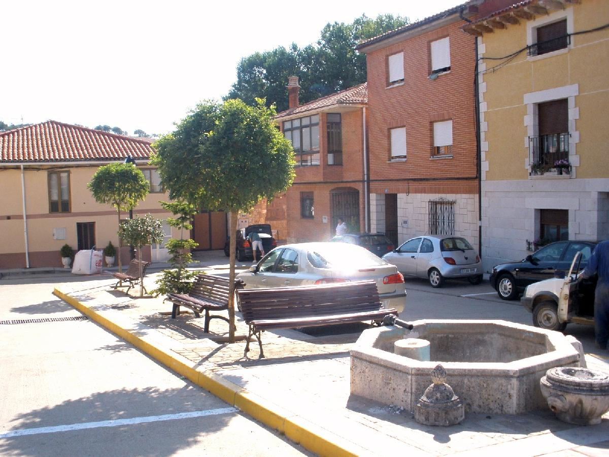 Plaza de Basconcillos del Tozo (Burgos, Castilla y León, España)